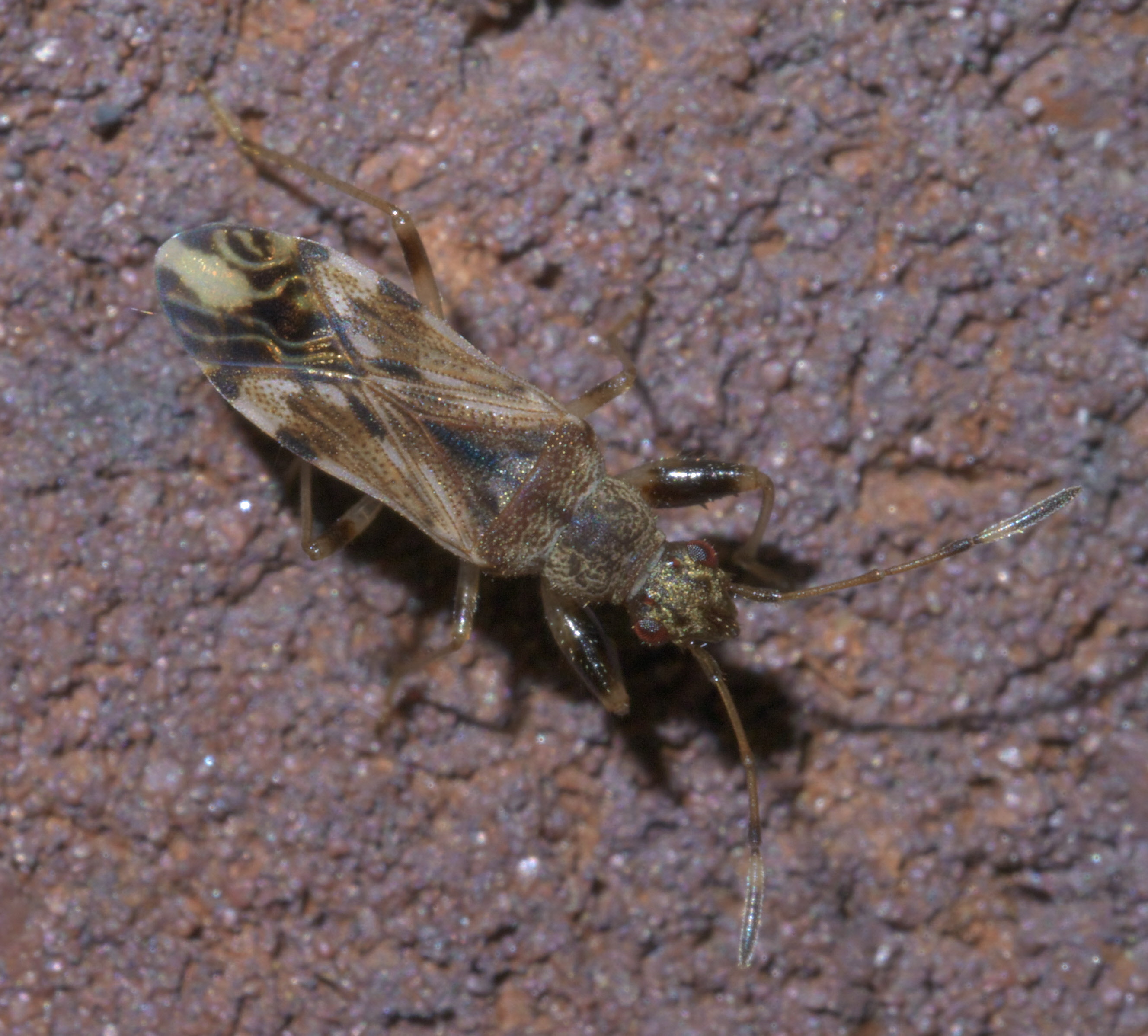 Neopamera albocincta, Family: Dirt-colored Seed Bugs, Size: 6 mm, ID Confidence: 88